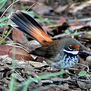 Bird, Rufous Fantail, Rhipidura rufifrons